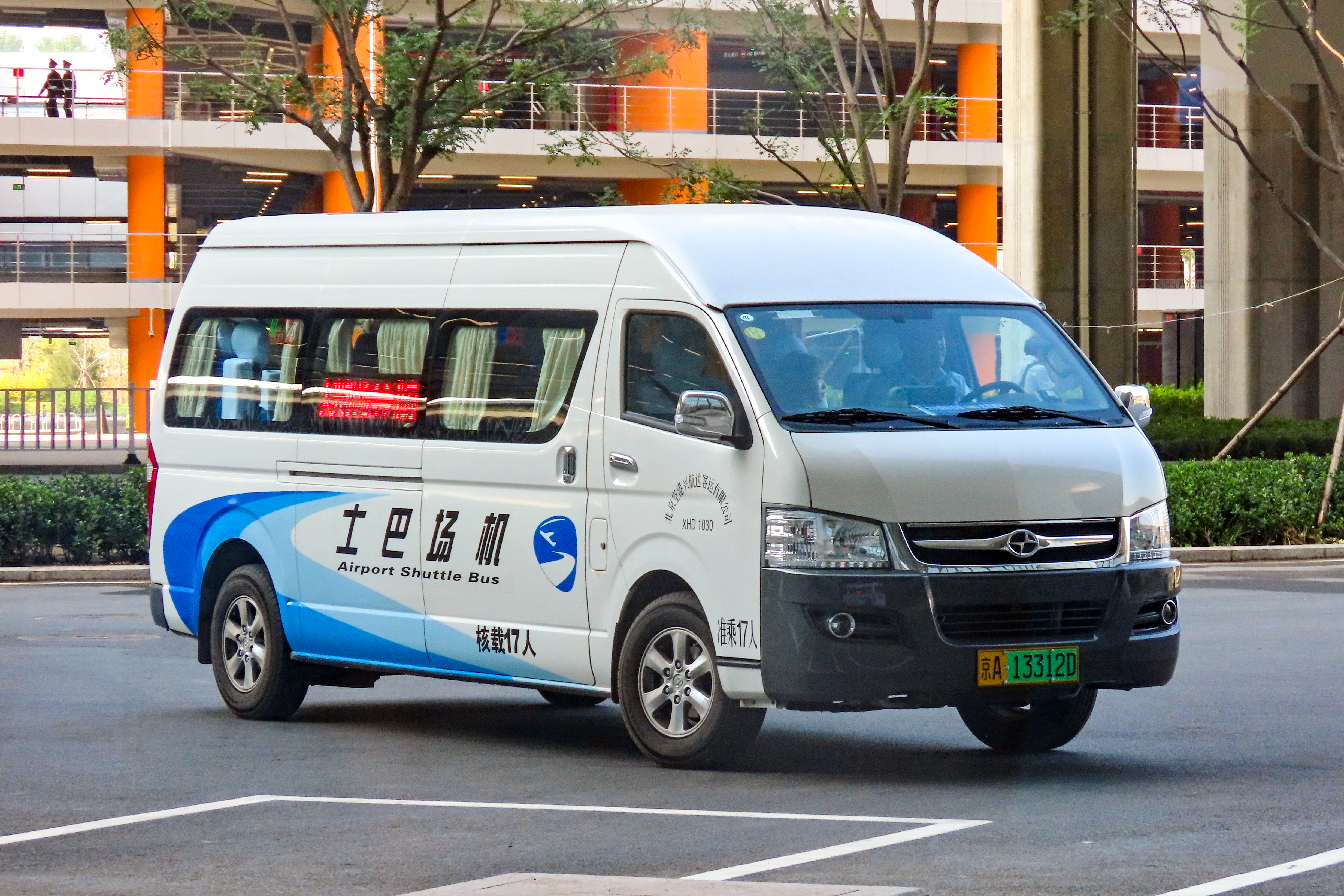 Xinghang 3 to Beijing South Railway Station. All 6 routes have same fare: CNY 40.